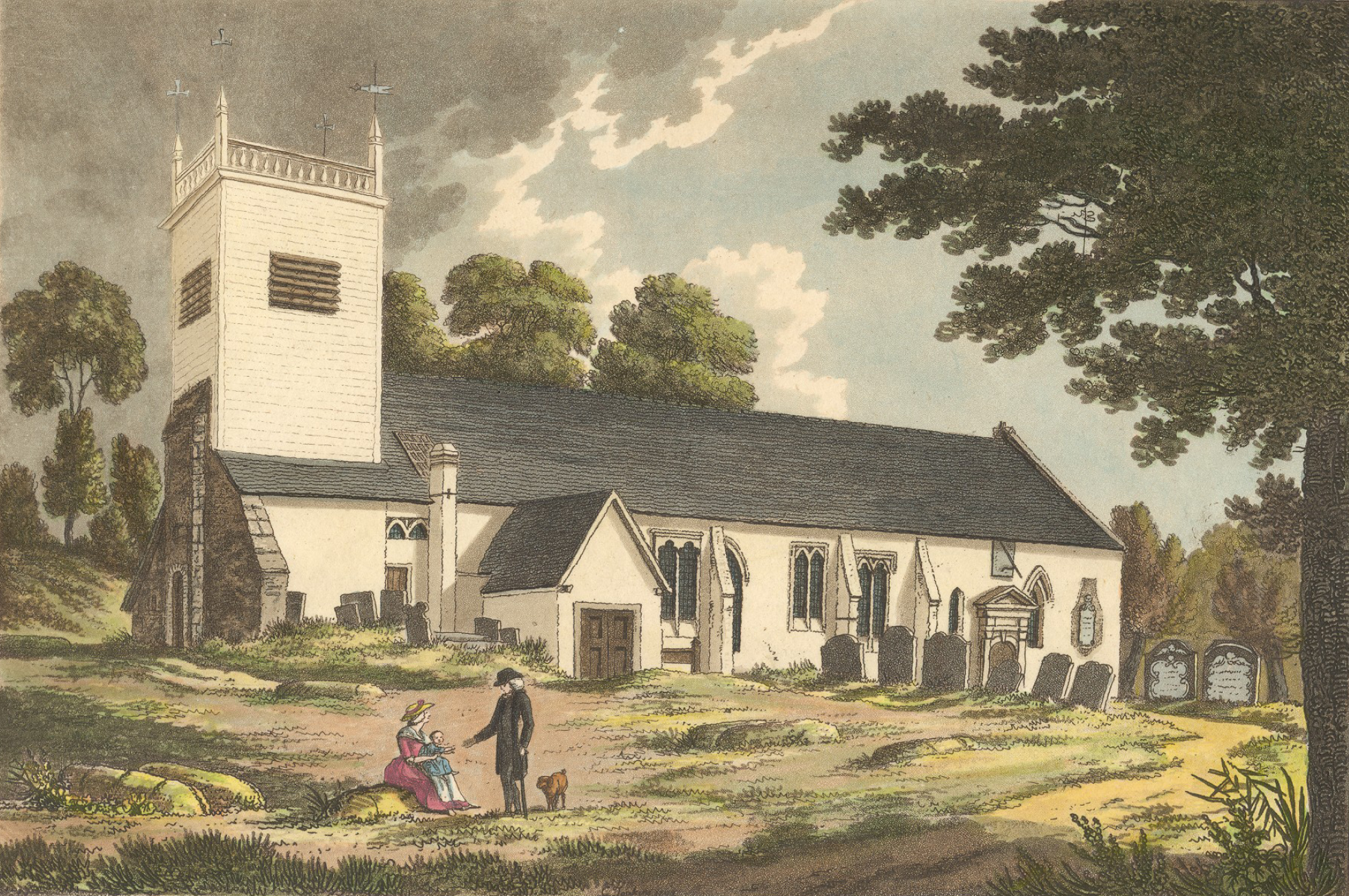 St. Peter's Church, Caversham, Reading, from the south, showing the wooden tower and part of the churchyard. 1800-1809 : print, drawn and engraved by Charles Tomkins, published 1804, from Tomkins' "Views of Reading Abbey." Black and white version at Dynix 1204766.